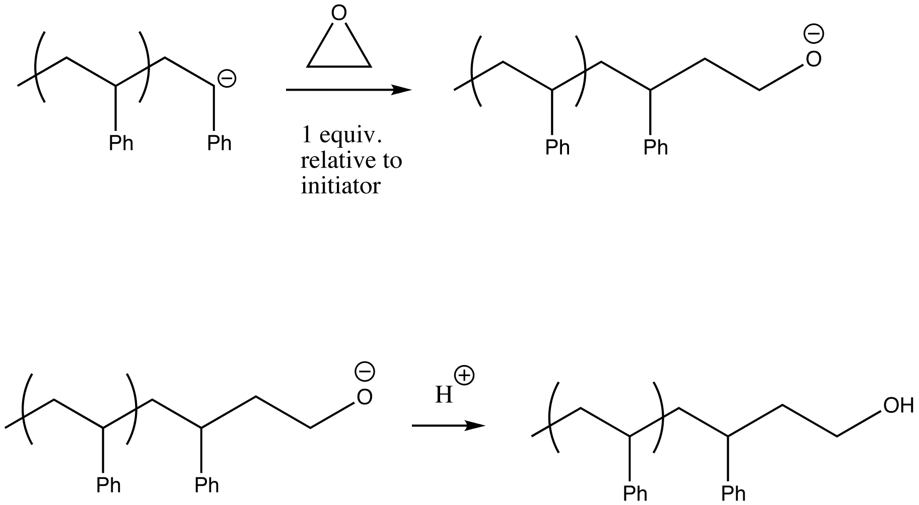 Mechanism for adding functional groups to anionic addition polymers